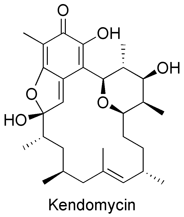 Kendomycin molecule